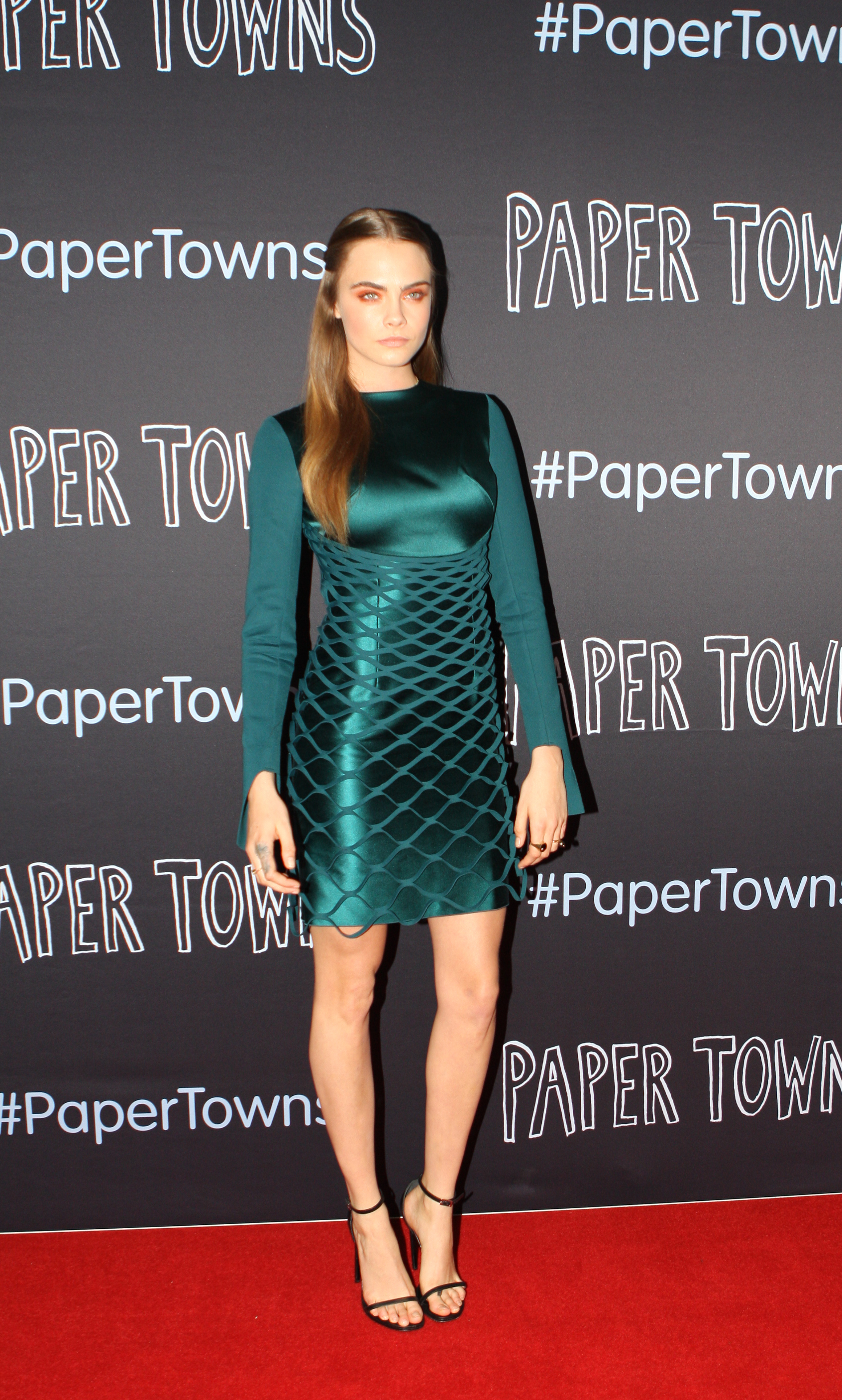 Paper Towns Australian Premiere